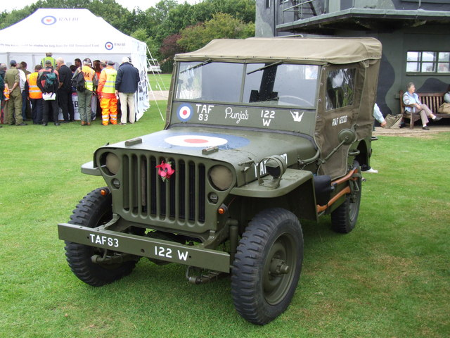 RAFBF 90th Birthday Air Show, East Kirkby. The car is most probably Ford GPW, as front frame crossmember suggests.